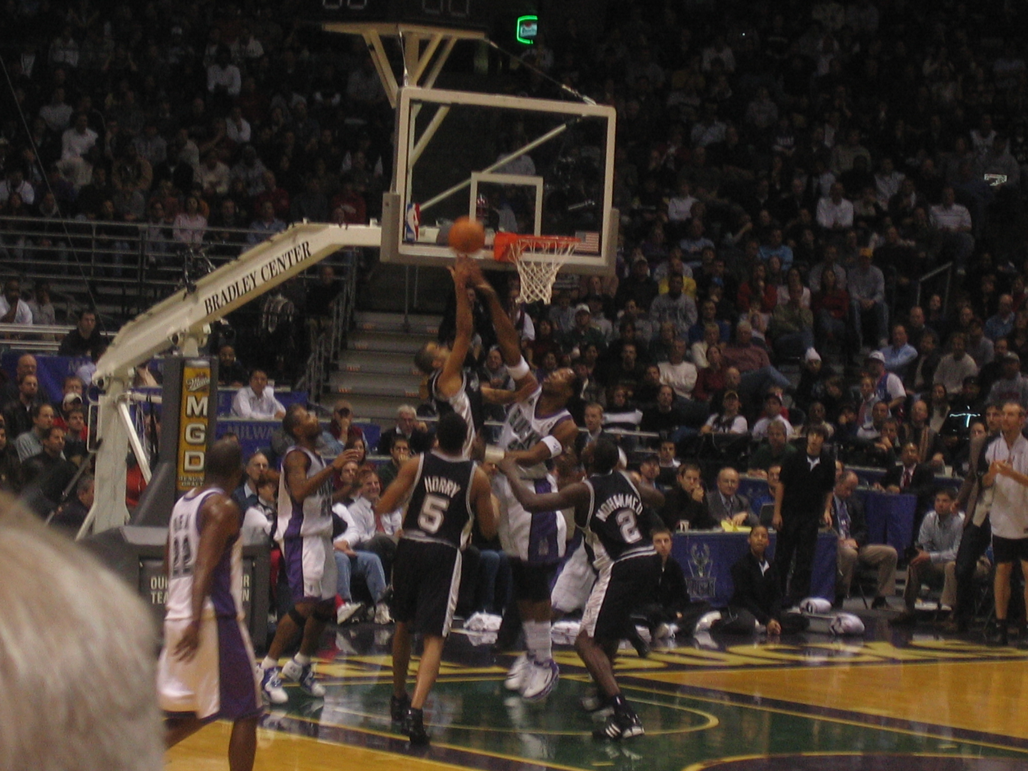 Tony Parker of San Antonio Spurs attempts a layup